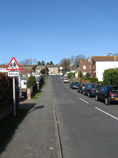 Acacia Road Residential street in the suburb of Denton linking Denton Road with Denton Rise. It was marked out on a 1937 map but only had two cottages, those up the hill on the right, built on it at the time. Much of the rest was added in the postwar period.